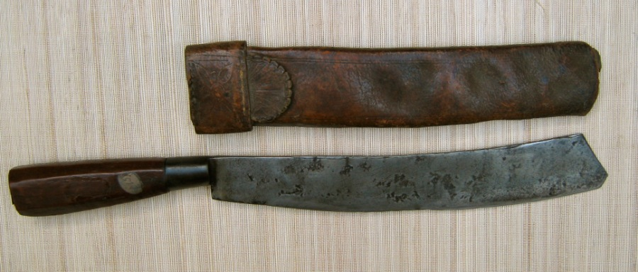 This antique Filipino sword is believed to have originated from Luzon, as evidenced by its leather scabbard and peened tang. The hardwood hilt is octagonal, and the ferrule is circular and is made of iron. The tooled leather scabbard has shrunk and deteriorated with age. The small size of the sword makes it easy to conceal. In the attempted assassination of Imelda Marcos in 1972, the attacker used this type of bolo. Overall length: 415 mm (16.3 inches); Blade length: 275 mm (10.8 inches); Maximum blade thickness: 6 mm (1/4 inch); Scabbard length.: 273 mm (10.7 inches) Other uploaded materials by the same author on this same bolo plus many others can be found here: (a) Luzon weapons; (b) Visayan weapons; (c) Moro weapons; and (d) Lumad (non-Moro Mindanao) weapons